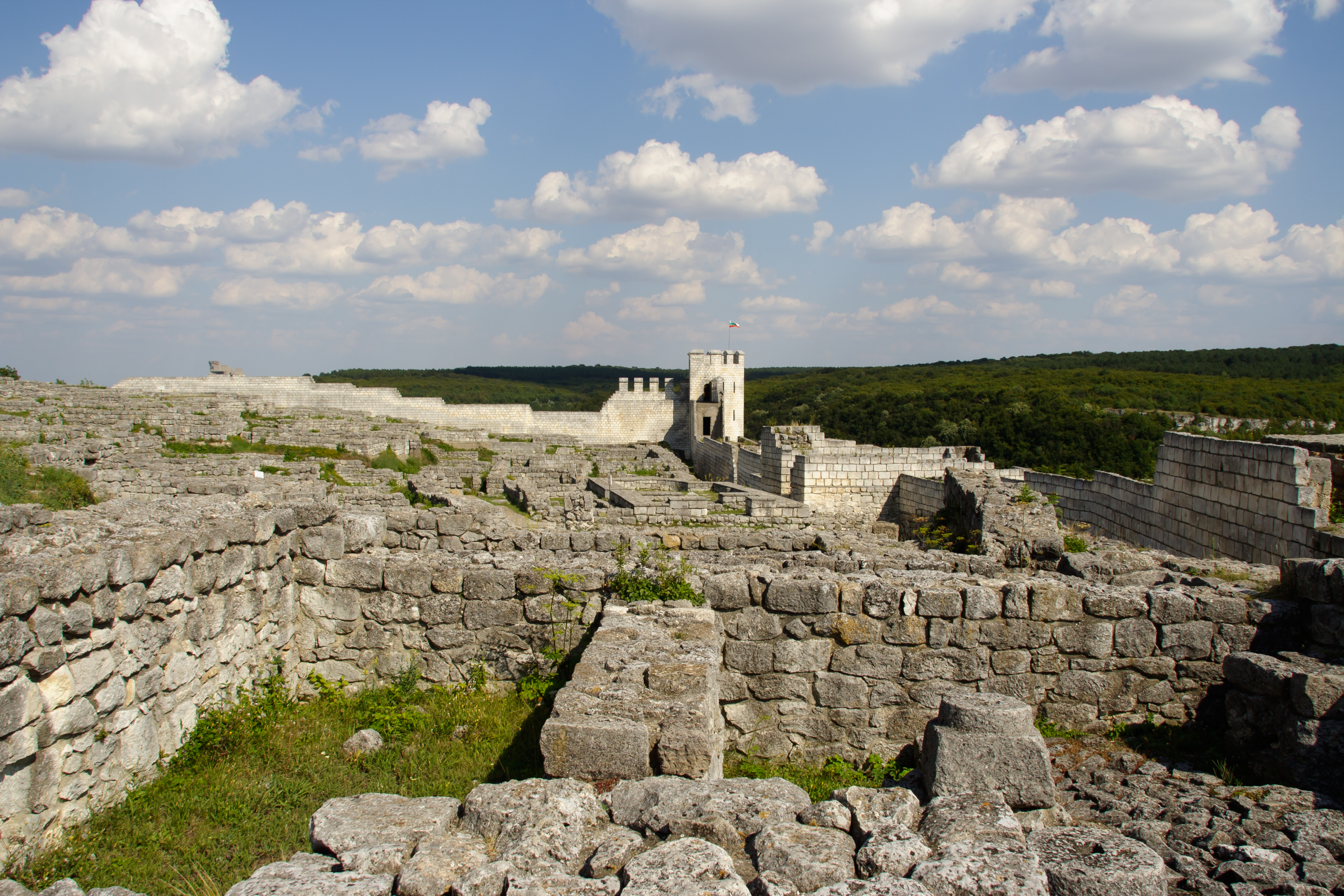 The fortress in Shumen, Bulgaria.